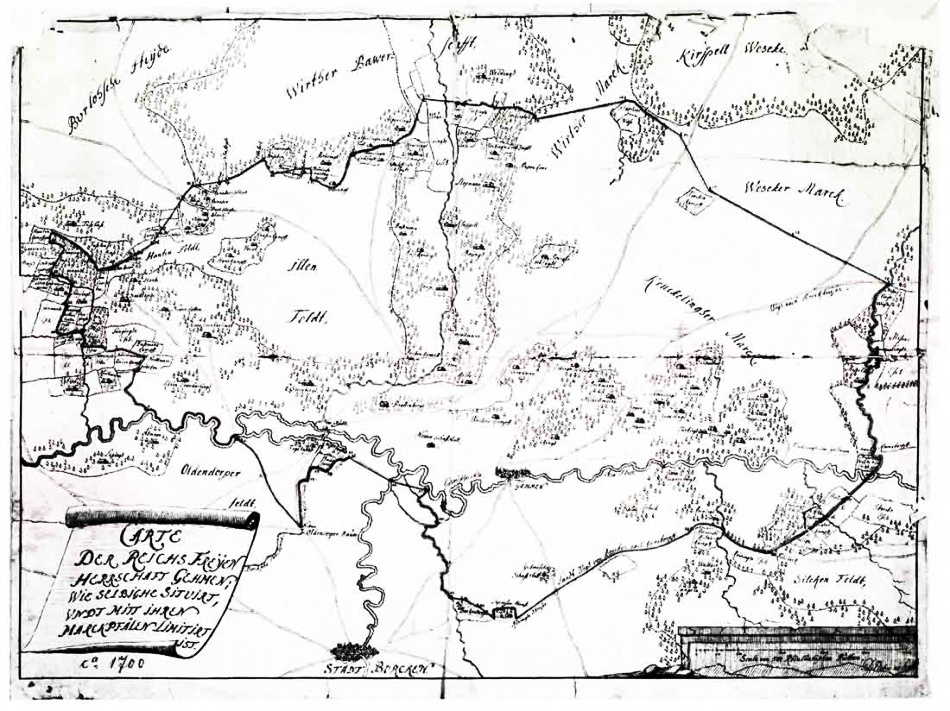 Map showing the territory of the Lordship (Herrschaft) of Gemen in Westphalia. The map was drawn in 1700, the year the lordship was granted imperial immediacy, becoming, as is grandly stated on the map, the "Free Imperial Lordship of Gemen" (Reichs Freyën Herrschaft Gehmen).